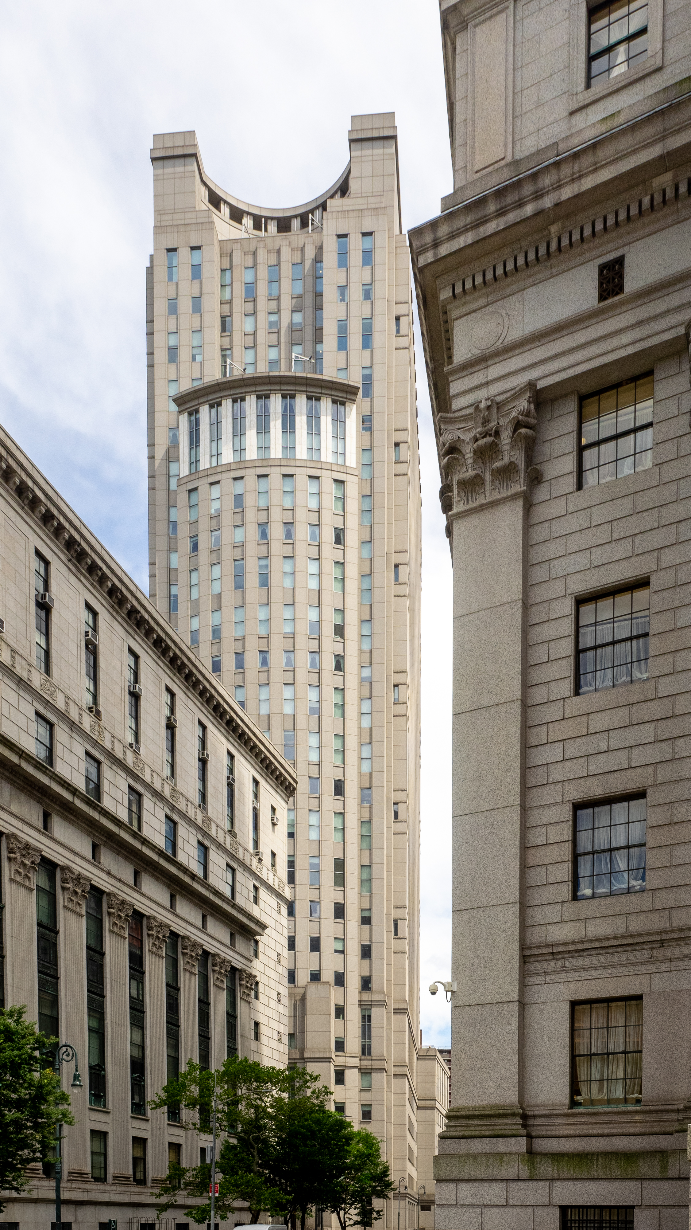 Civic Center, Manhattan, NYC